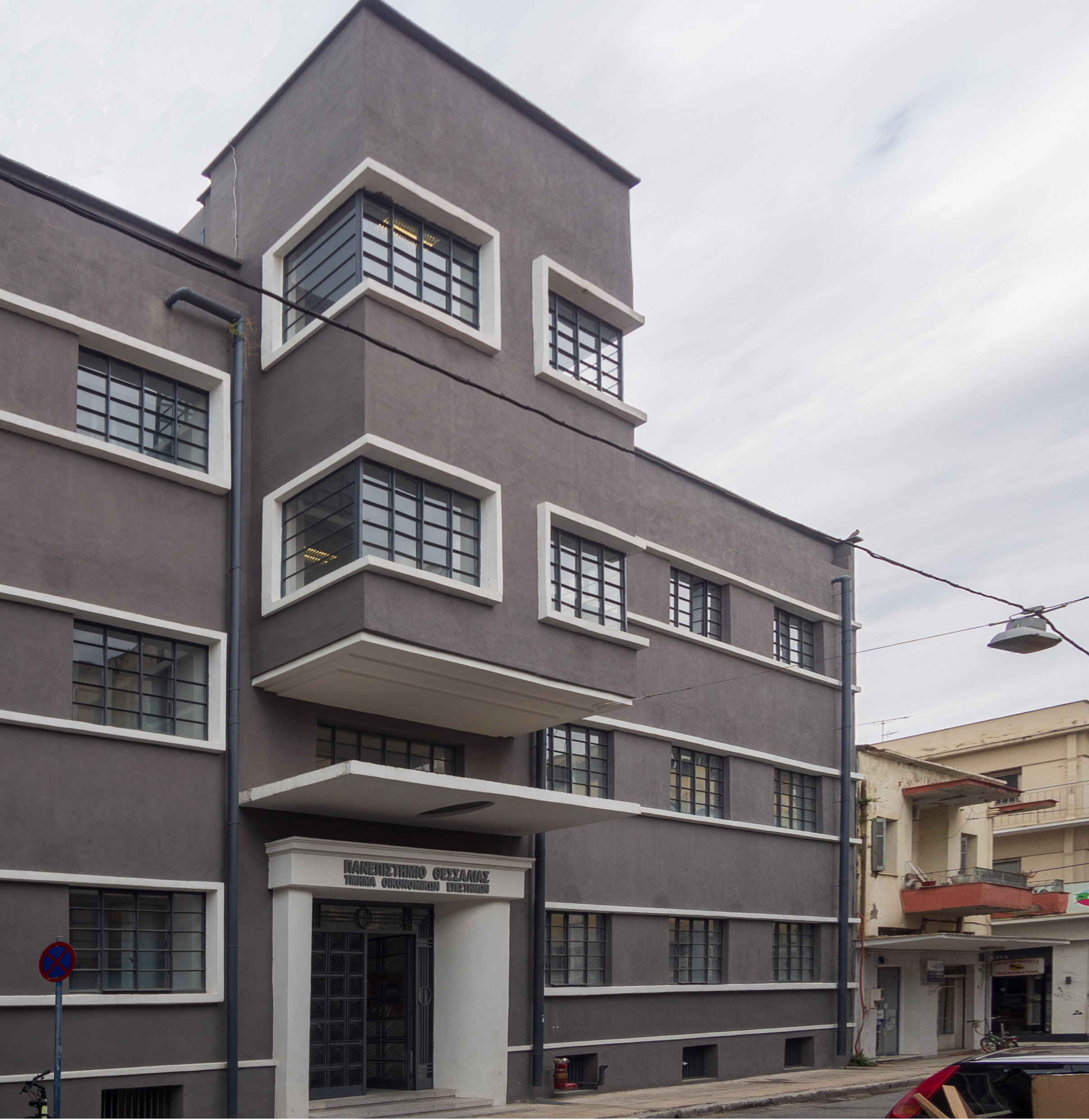 The former Matsagos tobacco factory, now used by the University of Thessaly to host the economics department.«Συγκρότημα Καπνοβιομηχανίας Ματσάγγου»